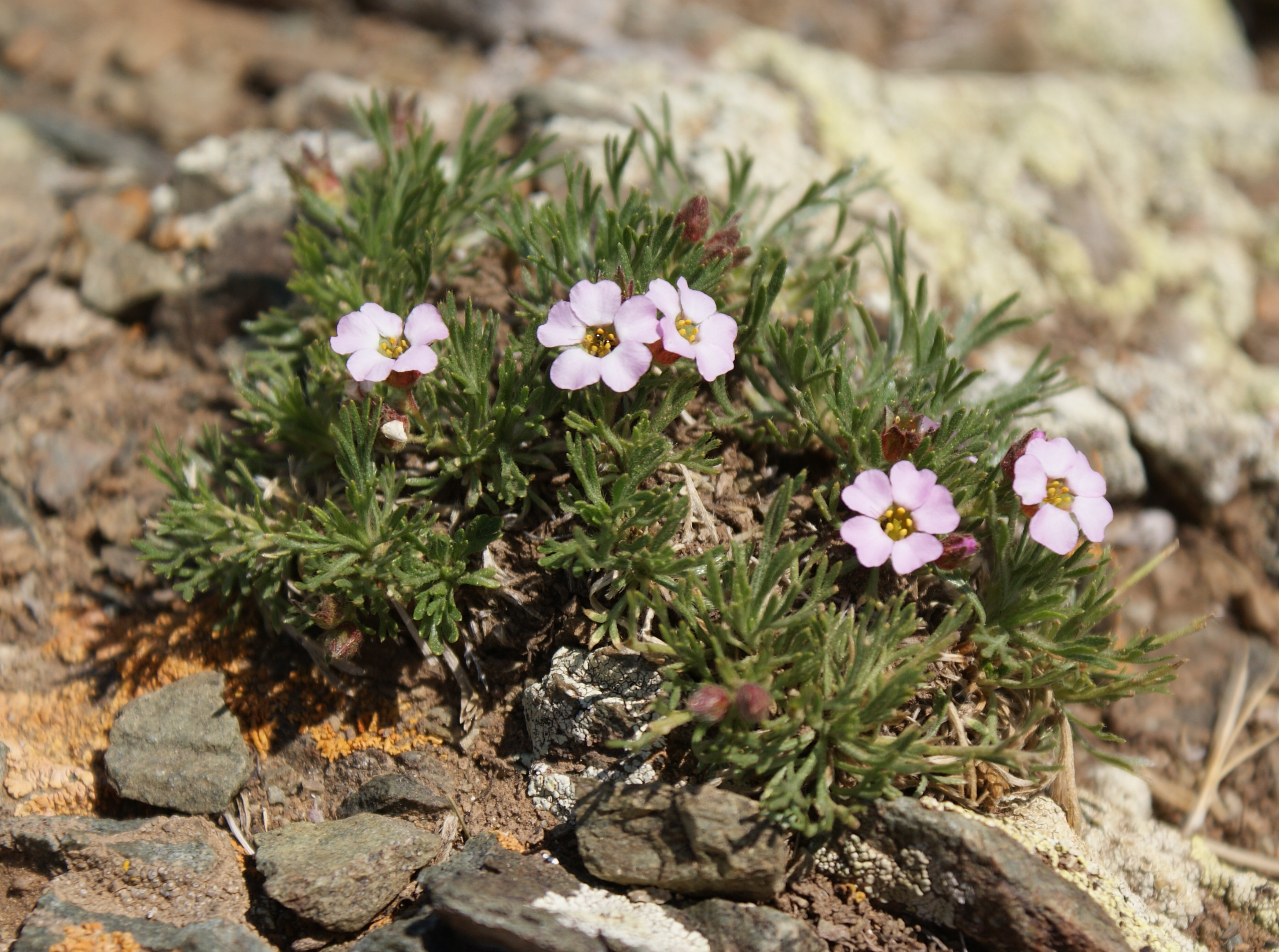 Chamaerhodos altaica in Mongolia